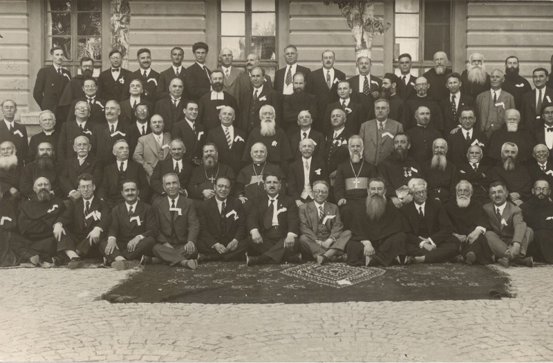 Bishop Angelo Roncalli, Cambon, Plenipotentiary Minister of France in Sofia, Mayor of Plovdiv Bozhidar Zdravkov and other officials of the celebration of the 50th anniversary of the St. Augustine French College in Plovdiv, May 1934.